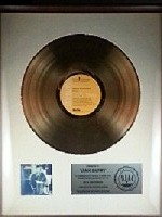 RCA Records, Harry Nilsson - Nilsson Schmilsson